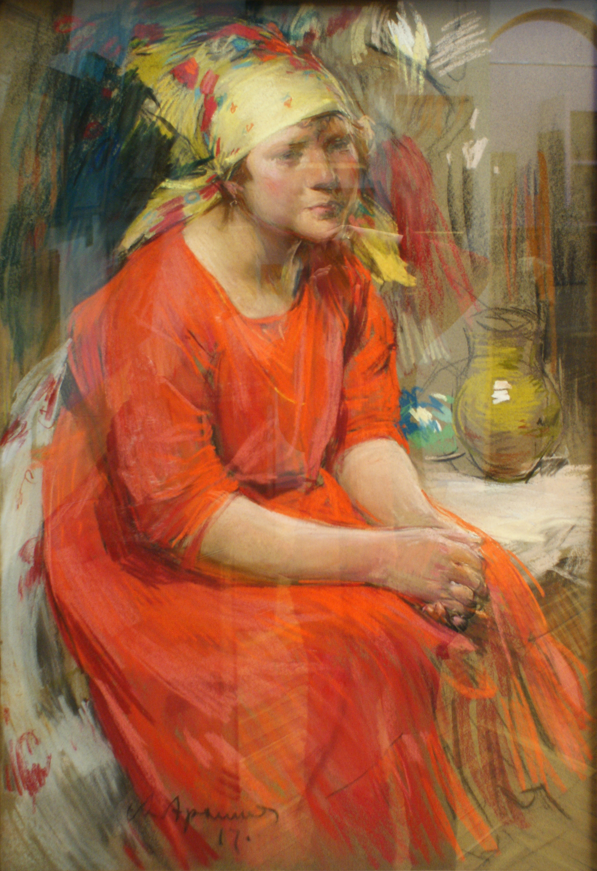 Peasant girl. Pastel on cardboard